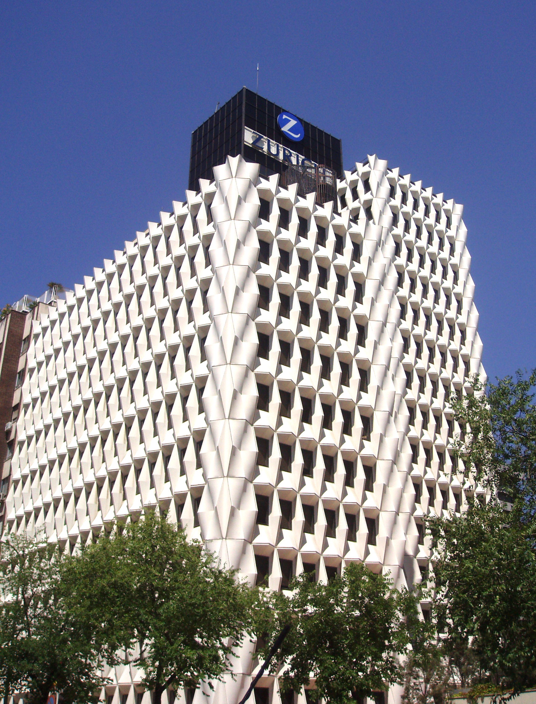 Façade of Zurich offices in Madrid (Spain).